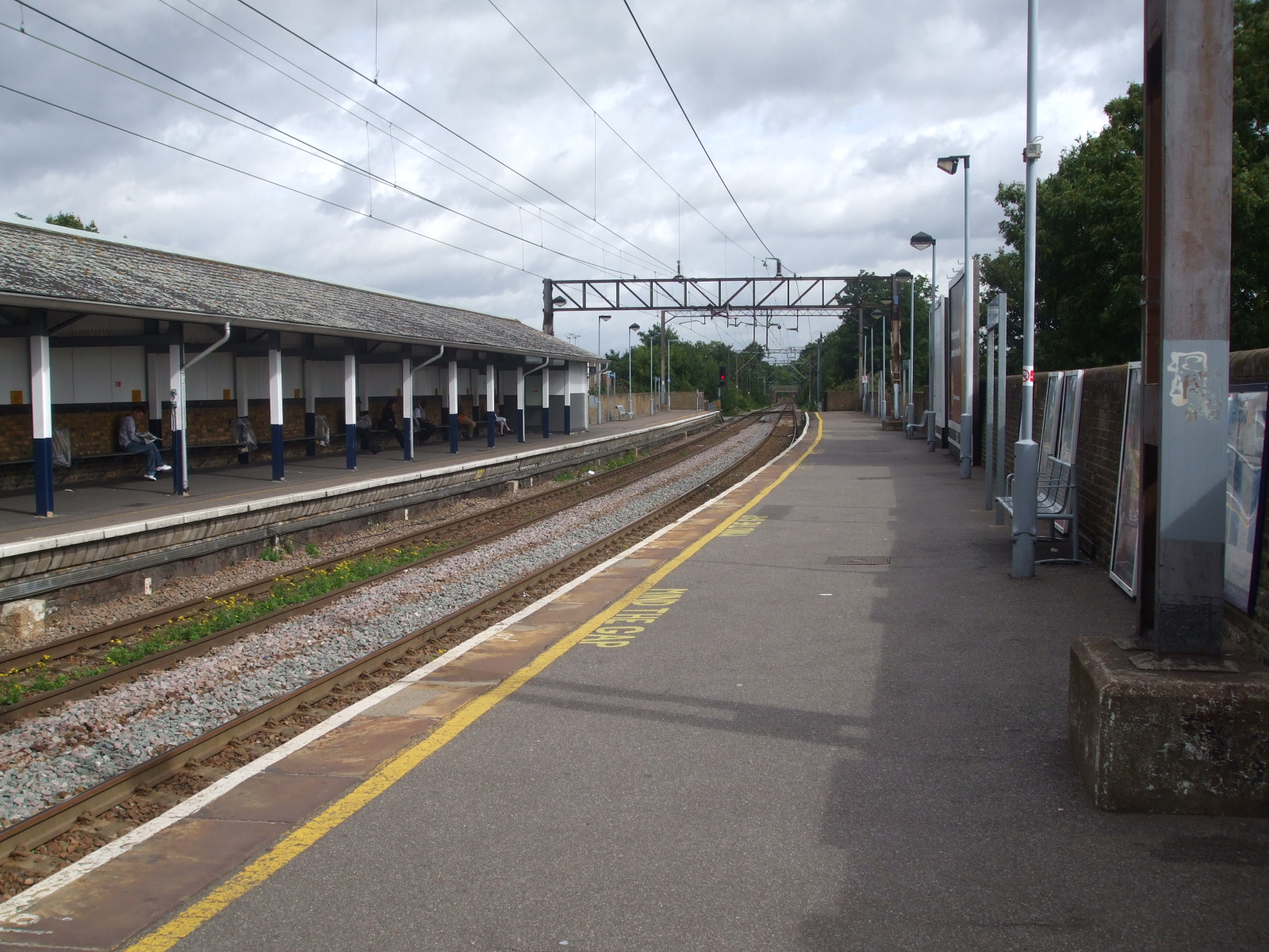 Seven Sisters station mainline platforms looking north